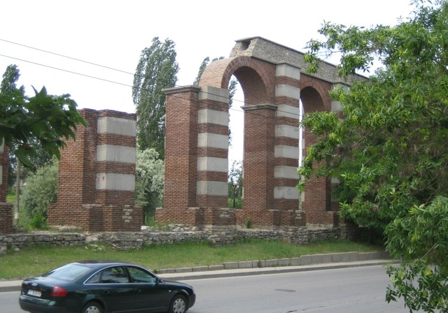 The Roman Aqueduct in Plovdiv